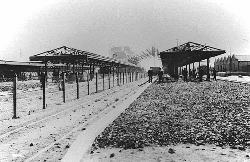 The Bahía Blanca Sud of Roca Railway in 1910. The building was exactly the same as Tandil station.